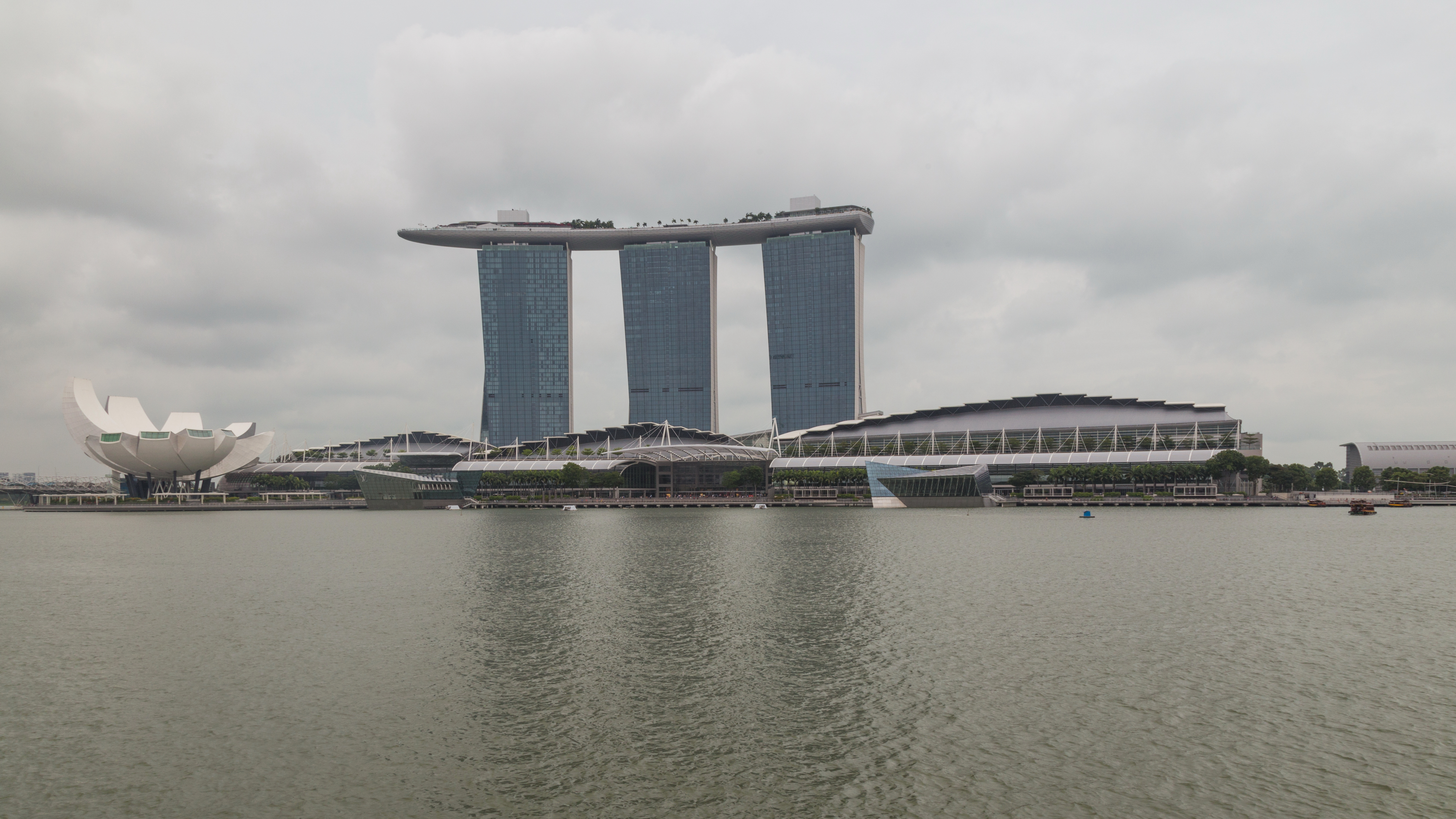 Marina Bay Sands and ArtScience Museum. Downtown Core, Central Region, Singapore.